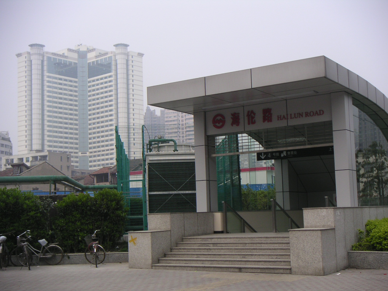 Shanghai Metro Hailun Road Station